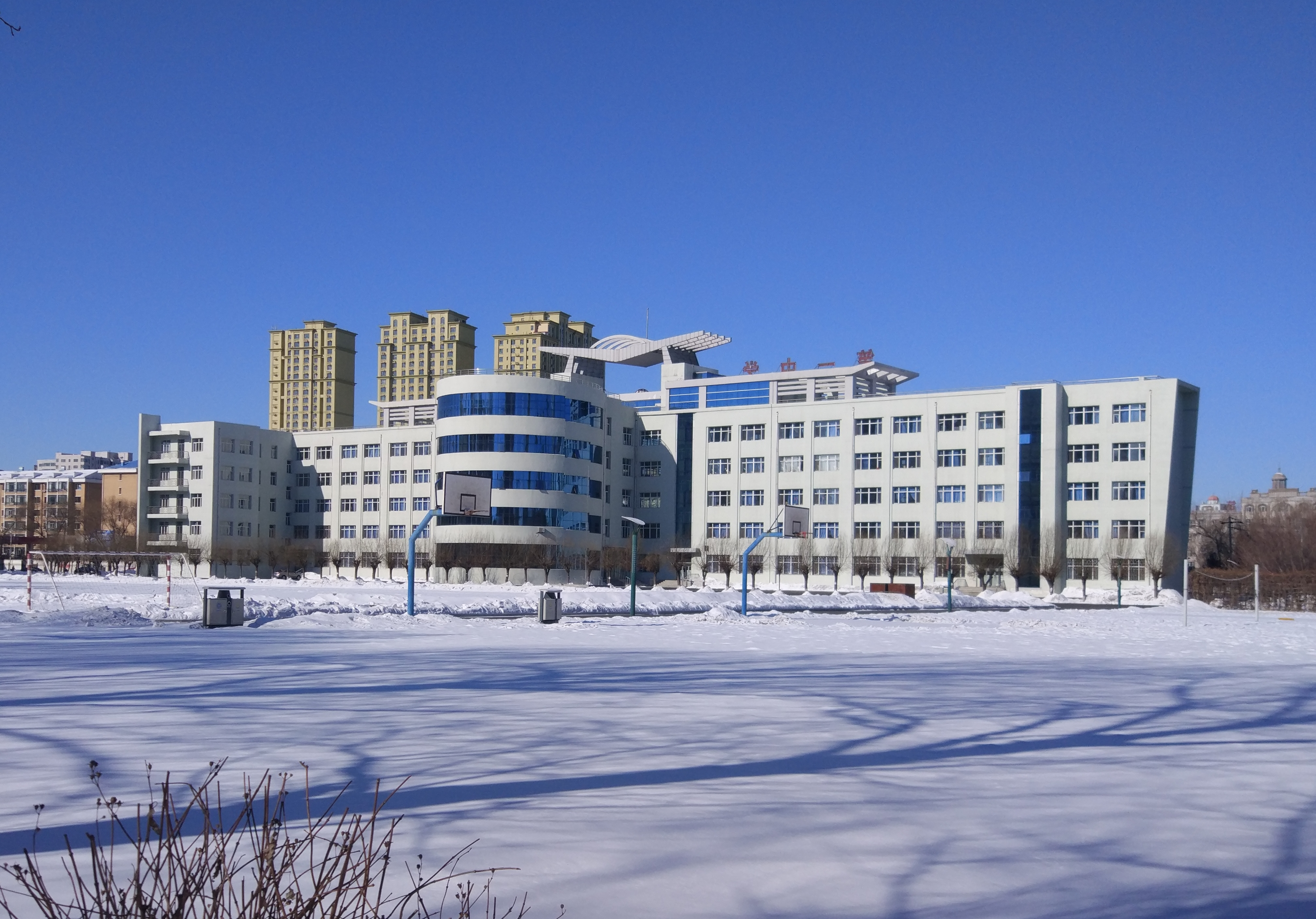 the second campus of Jiamusi No.1 High School